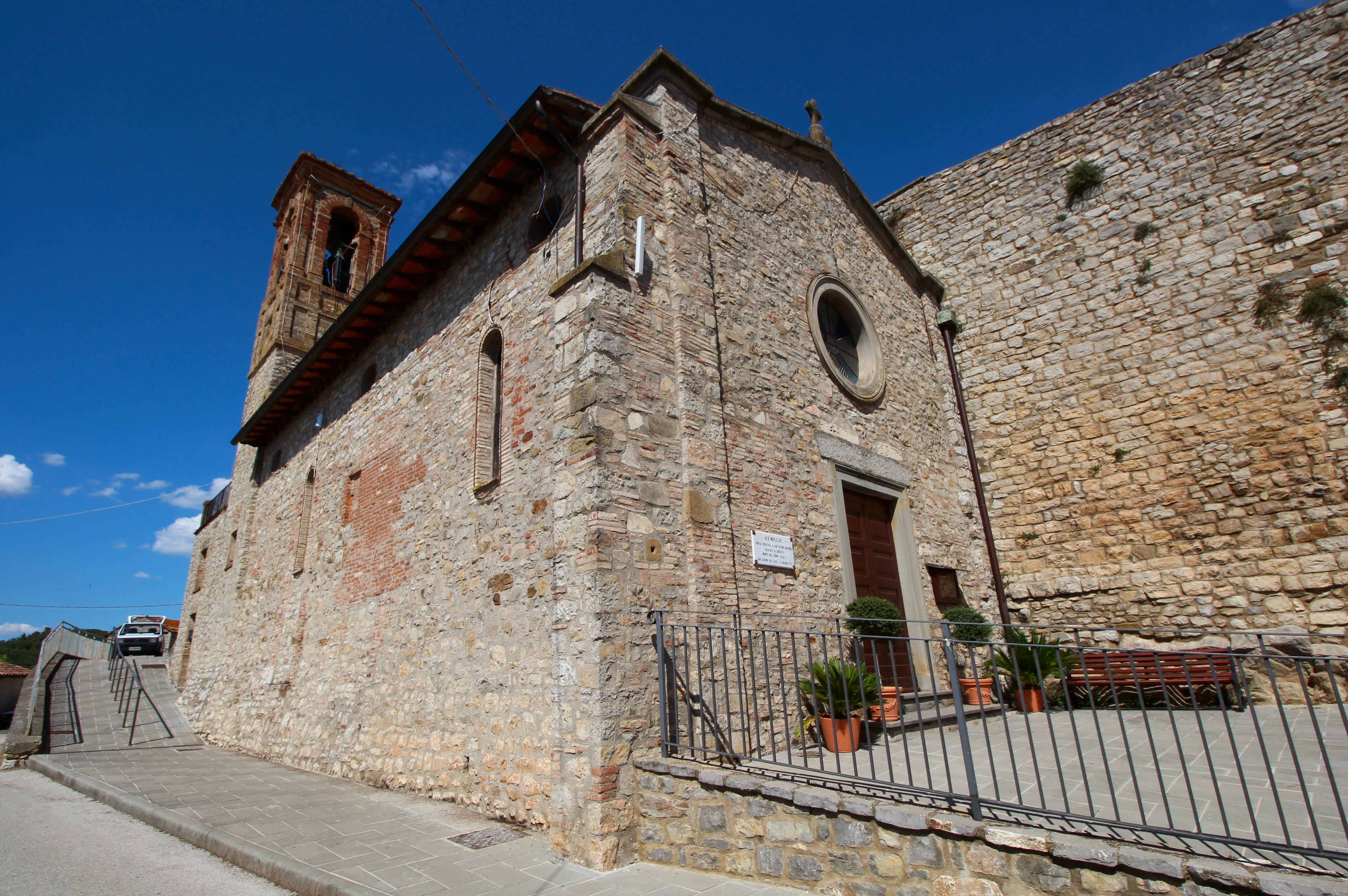 Church San Savino, San Savino, hamlet of Magione, Umbria, Italy